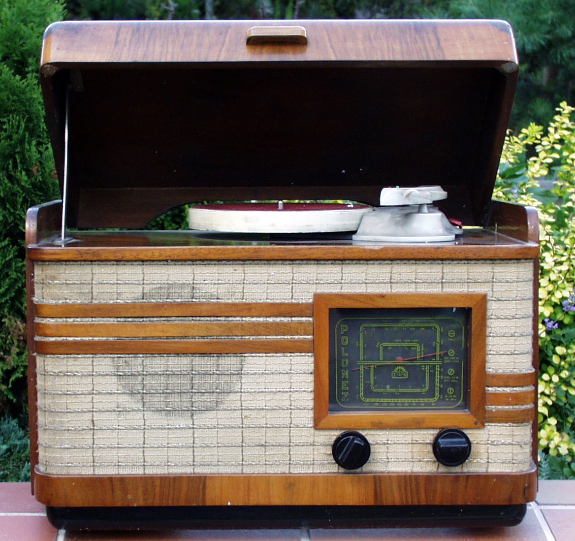 Radio-gramophone "Polonez", (front) manufacturer: "DIORA" (Poland), 1956-1958